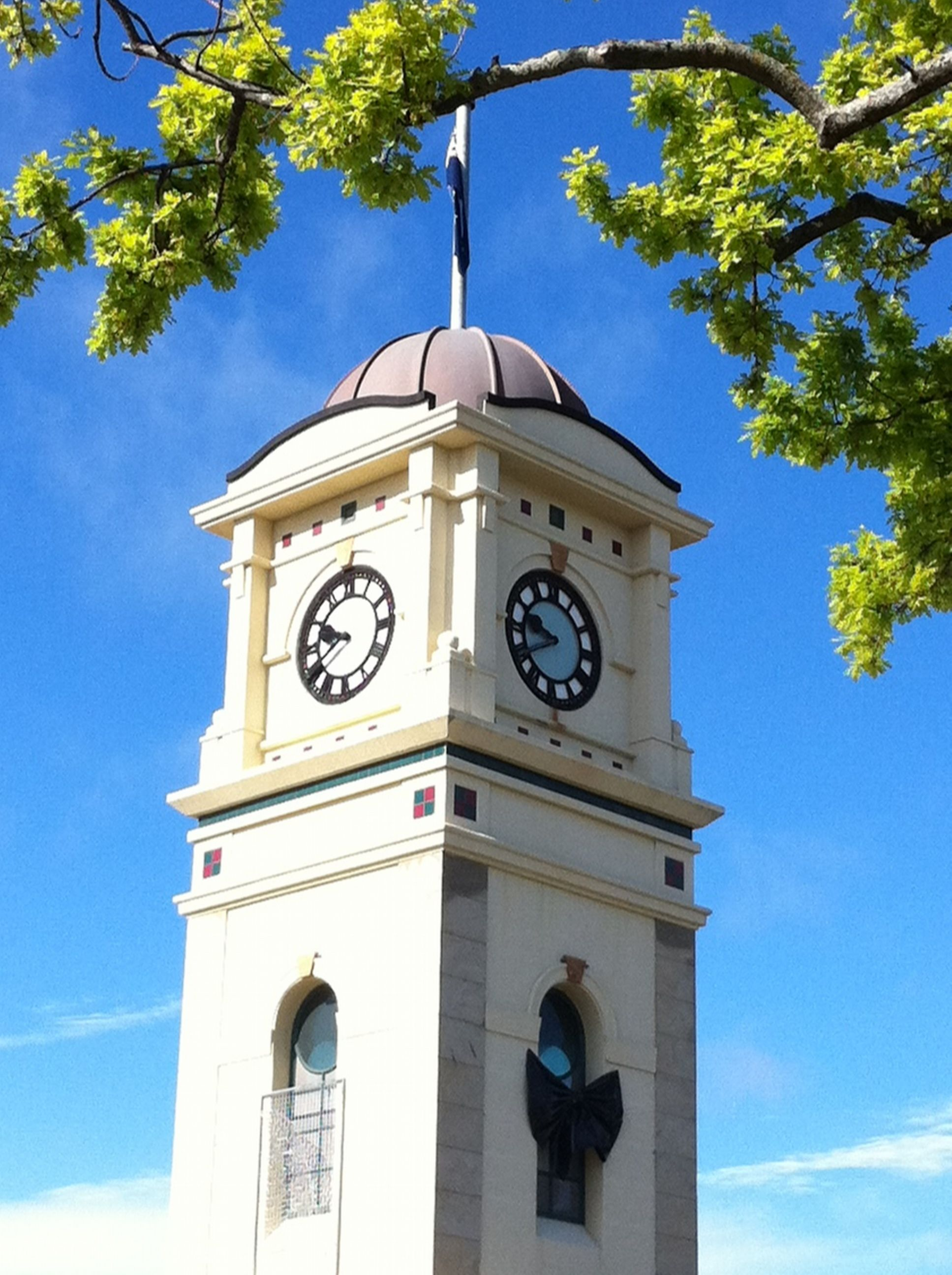 The Feilding Clocktower formerly stood atop the Post Office, however when a strong earthquake struck in 1942 in the nearby Wairarapa Region the building had to be demolished and the clock tower was put into storage. In December 1999 the tower was given a new home in the centre of Feilding's CBD.